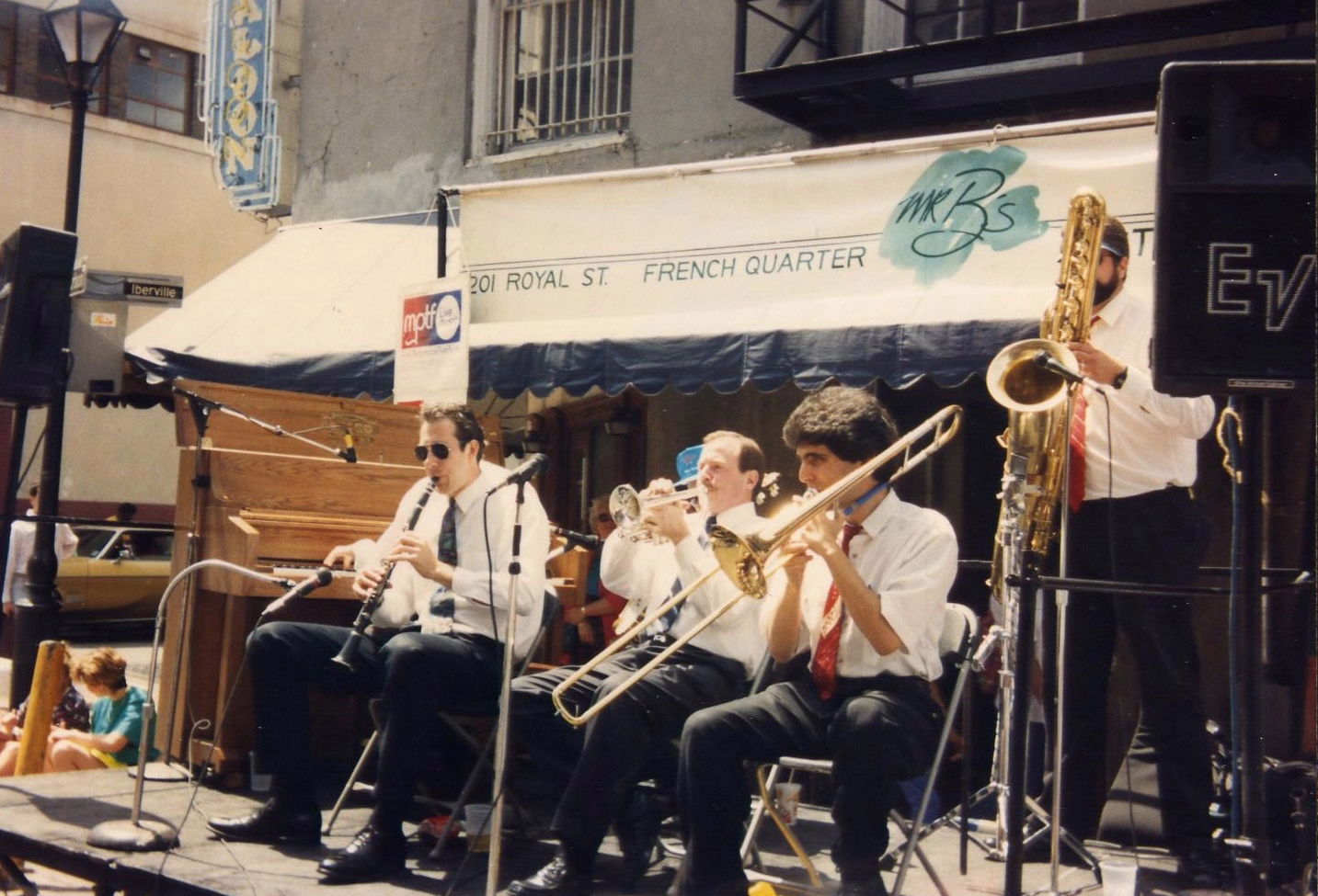 Band at French Quarter Festival, New Orleans. Visible musicians include Dan Levinson, clarinet; George Finola, cornet and leader; David Sager, trombone